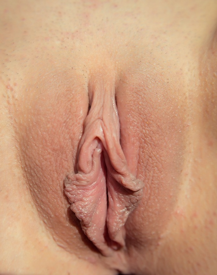 aaaaaaaaaaaaaaa